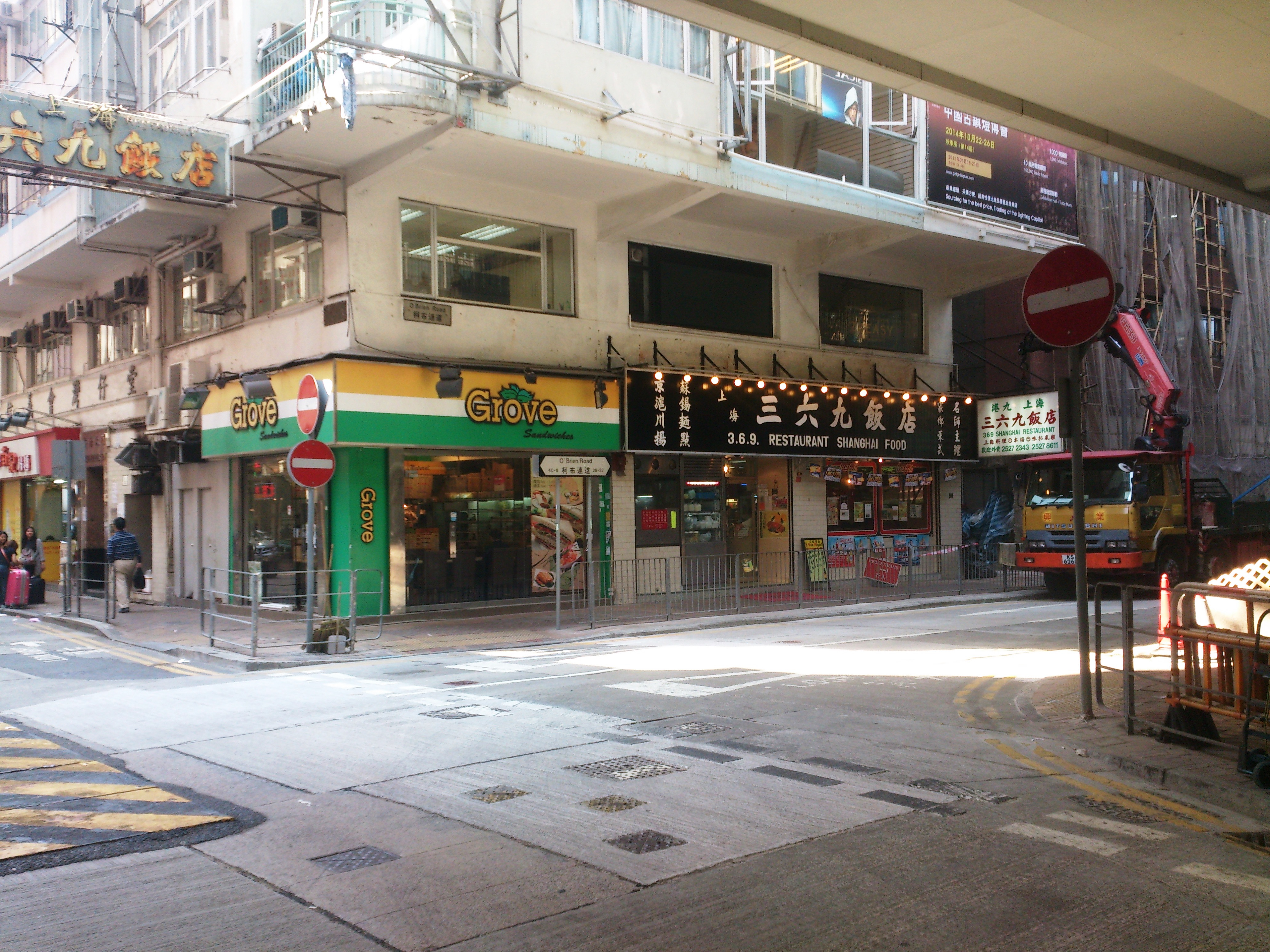 O'Brien Road near Jaffe Road